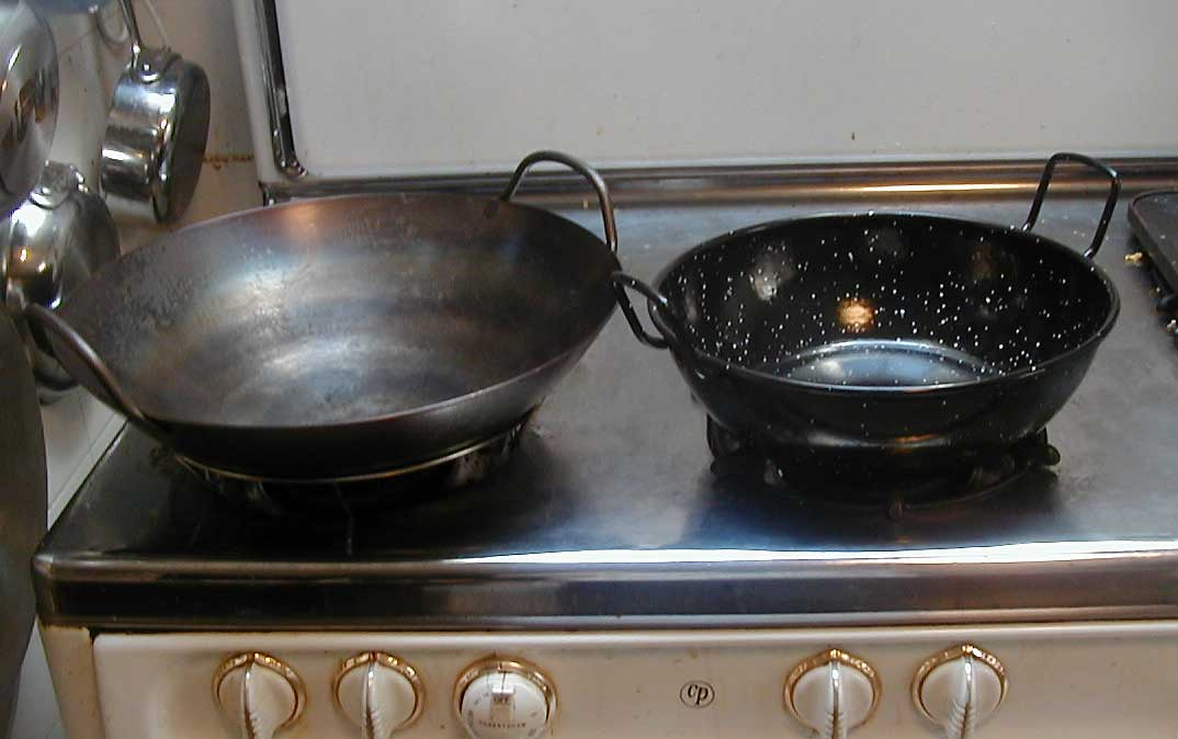 indian karahi